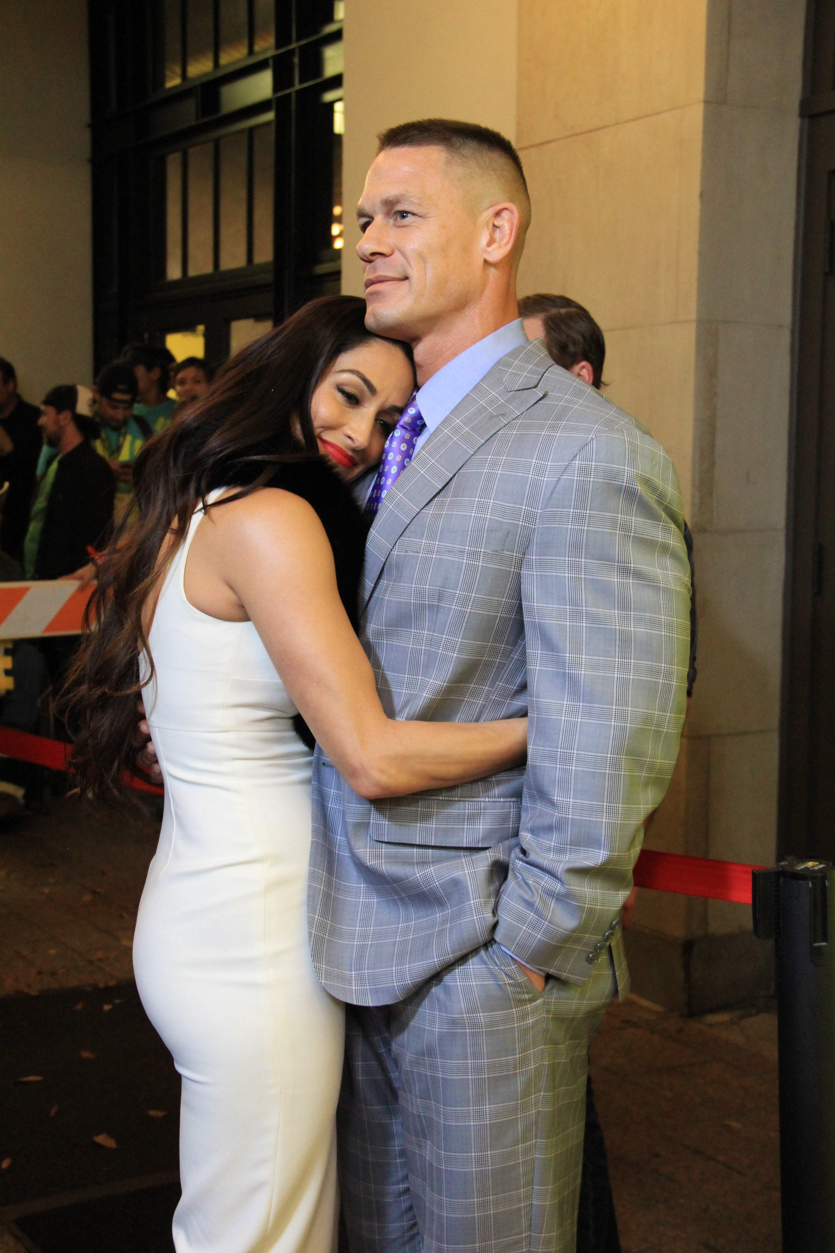 John Cena and Nikki Bella at SXSW Red Carpet premiere of BLOCKERS